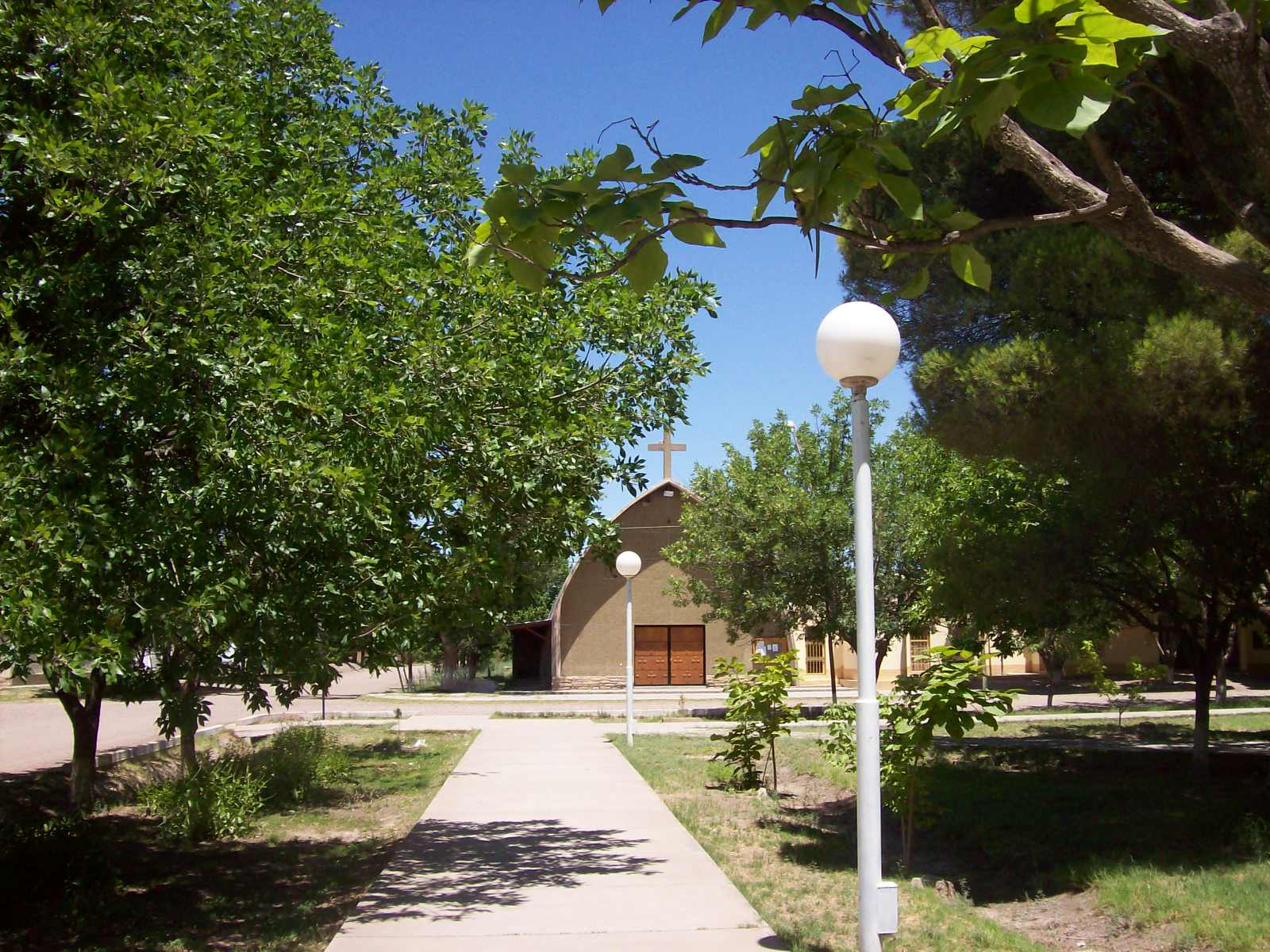 San Francis Church oposite to the inmigrants park in Real del Padre